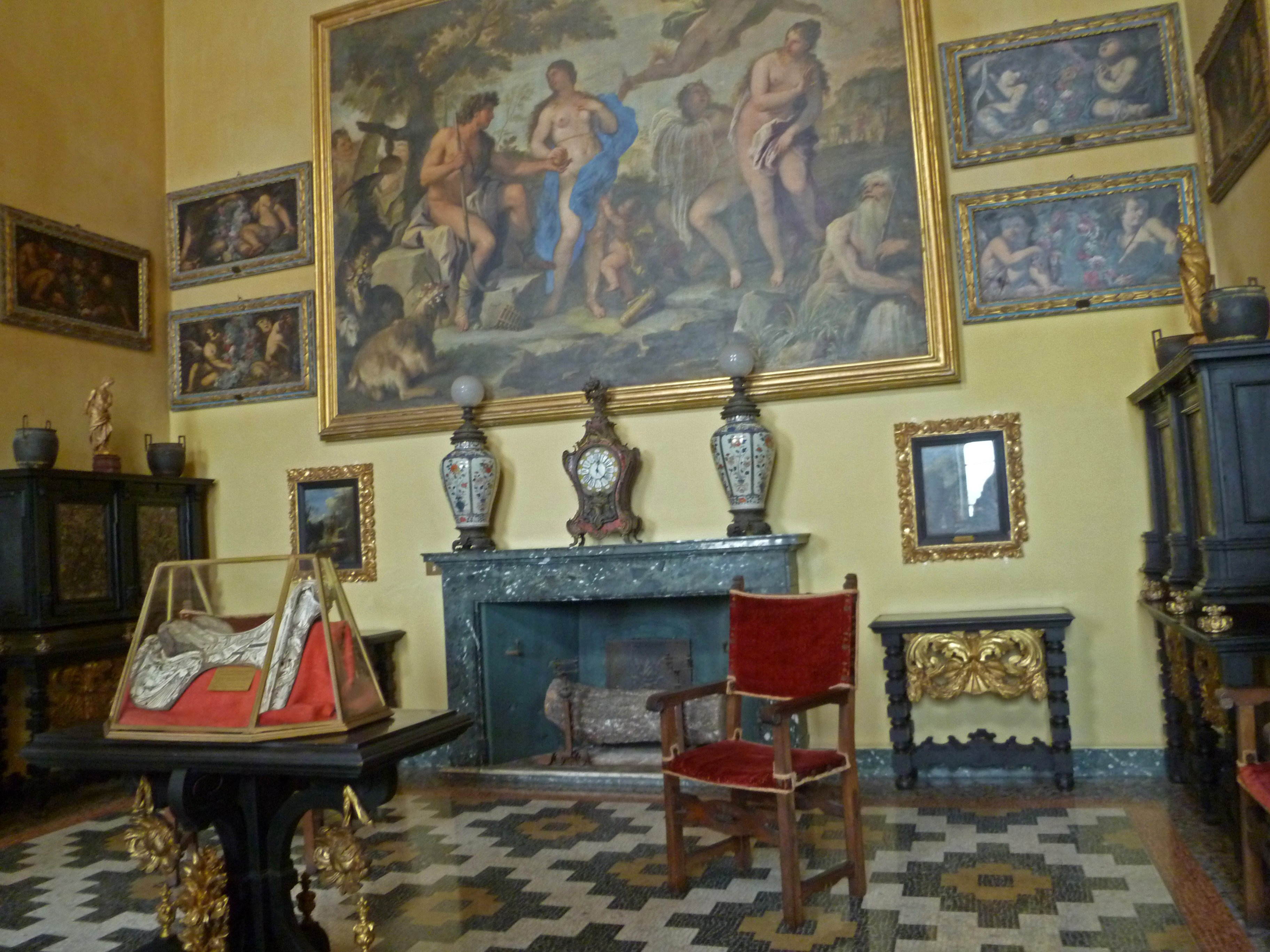 Luca Giordano's Room, whose large-scale paintings adorn the wall; "The Abduction of Europe"; gilded-wood ebony console with marble panel (by Giovanni Saglier and collaborators); Borromeo Palace, Isola Bella, Lago Maggiore, Italy